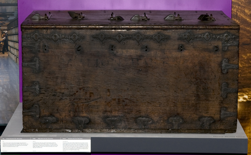 'Million Bank' lottery chest from the collections of The National Archives Catalogue Reference: C 46/2